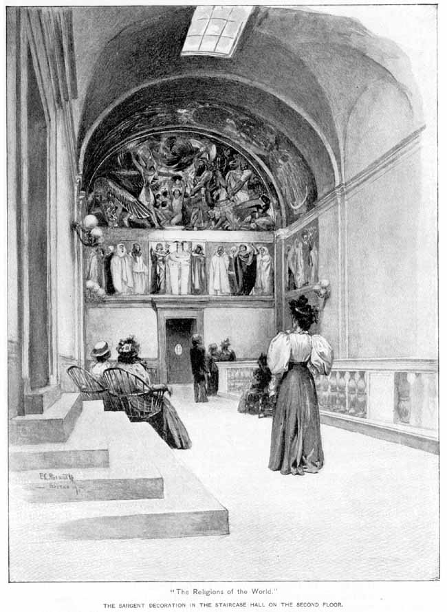 "Religions of the World: The Sargent Decoration in the Staircase Hall", Boston Public Library